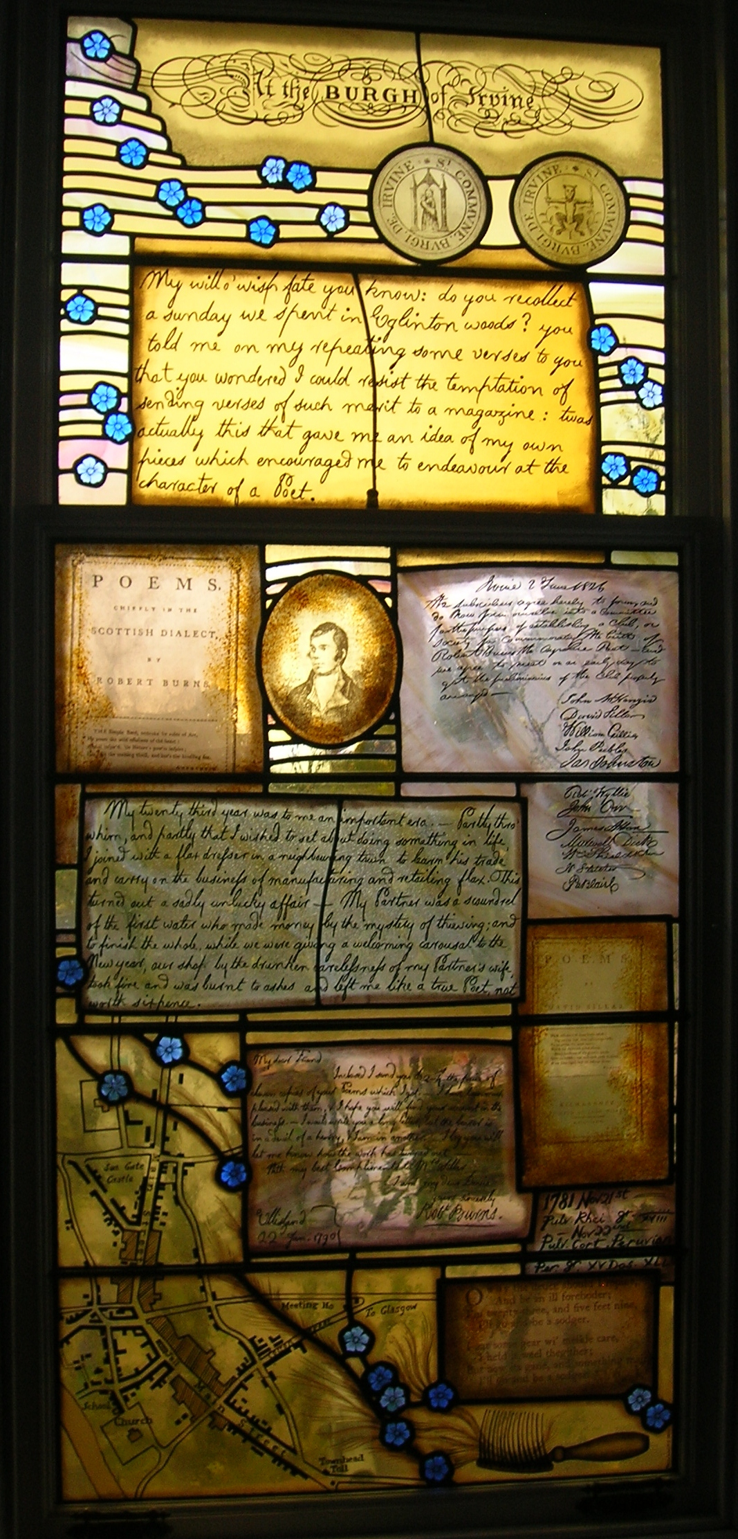 Life of Burns stained glass window, Irvine Burns Club, North Ayrshire, Scotland